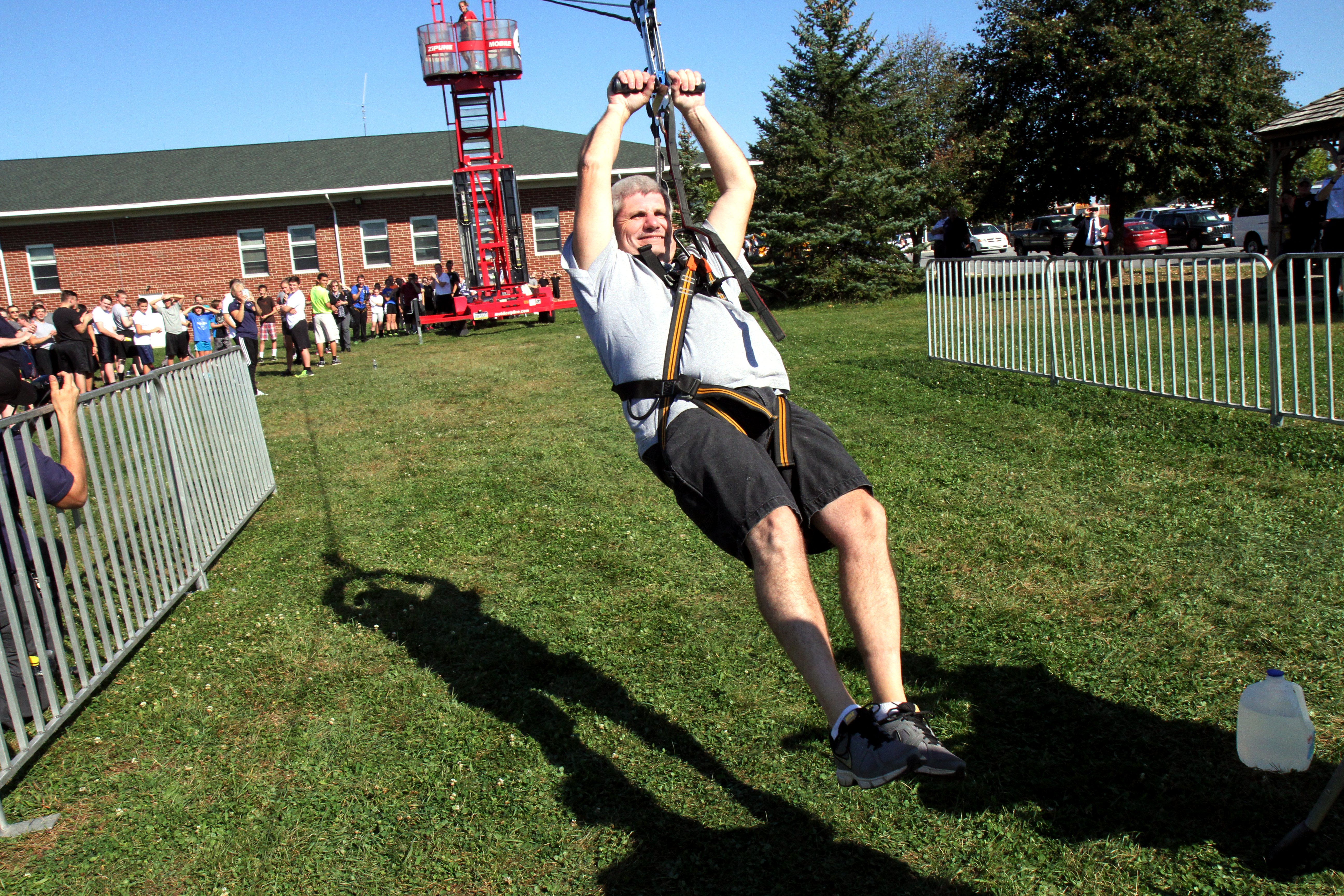 Col. Gary Fleming, former wing commander of the Pennsylvania Civil Air Patrol Wing, takes a turn on the mobile zip line as a part of the 10th annual Civil Air Patrol Cadet Conference held September 23, 2017 at Fort Indiantown Gap, Pa. (U.S. Army National Guard photo by Spc. Anna Churco)